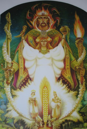 Photo of a painting in a Sylenkoite temple, in Ukraine.